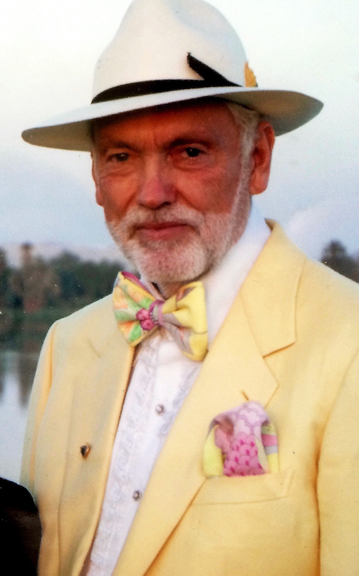 Photograph of Robert Earl Burton taken at an event in Egypt.